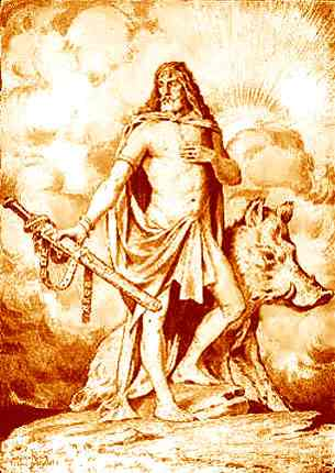 The Norse god Freyr and his boar Gullinbursti.